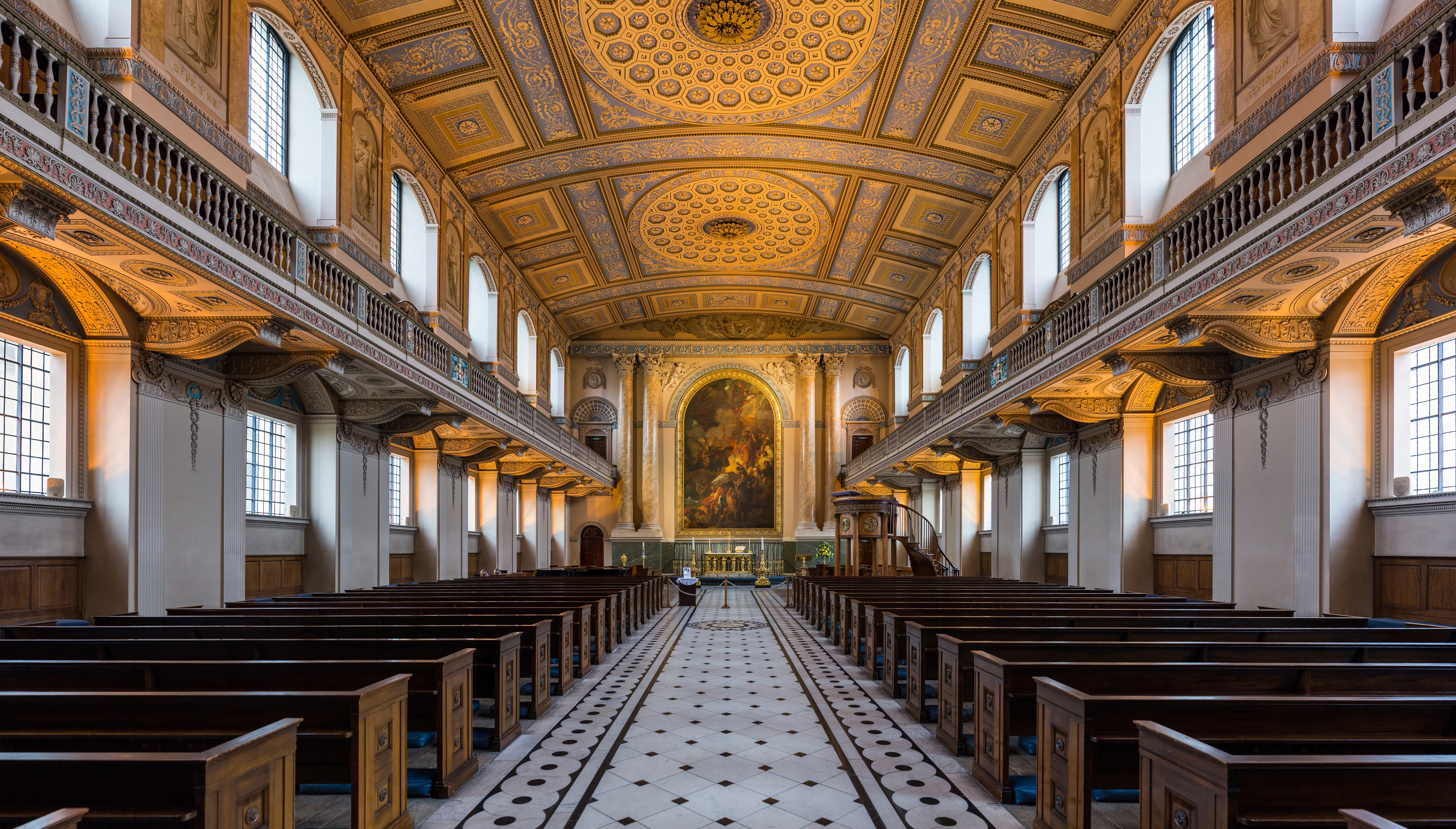 The interior of the Old Royal Naval College Chapel in Greenwich, London, England.